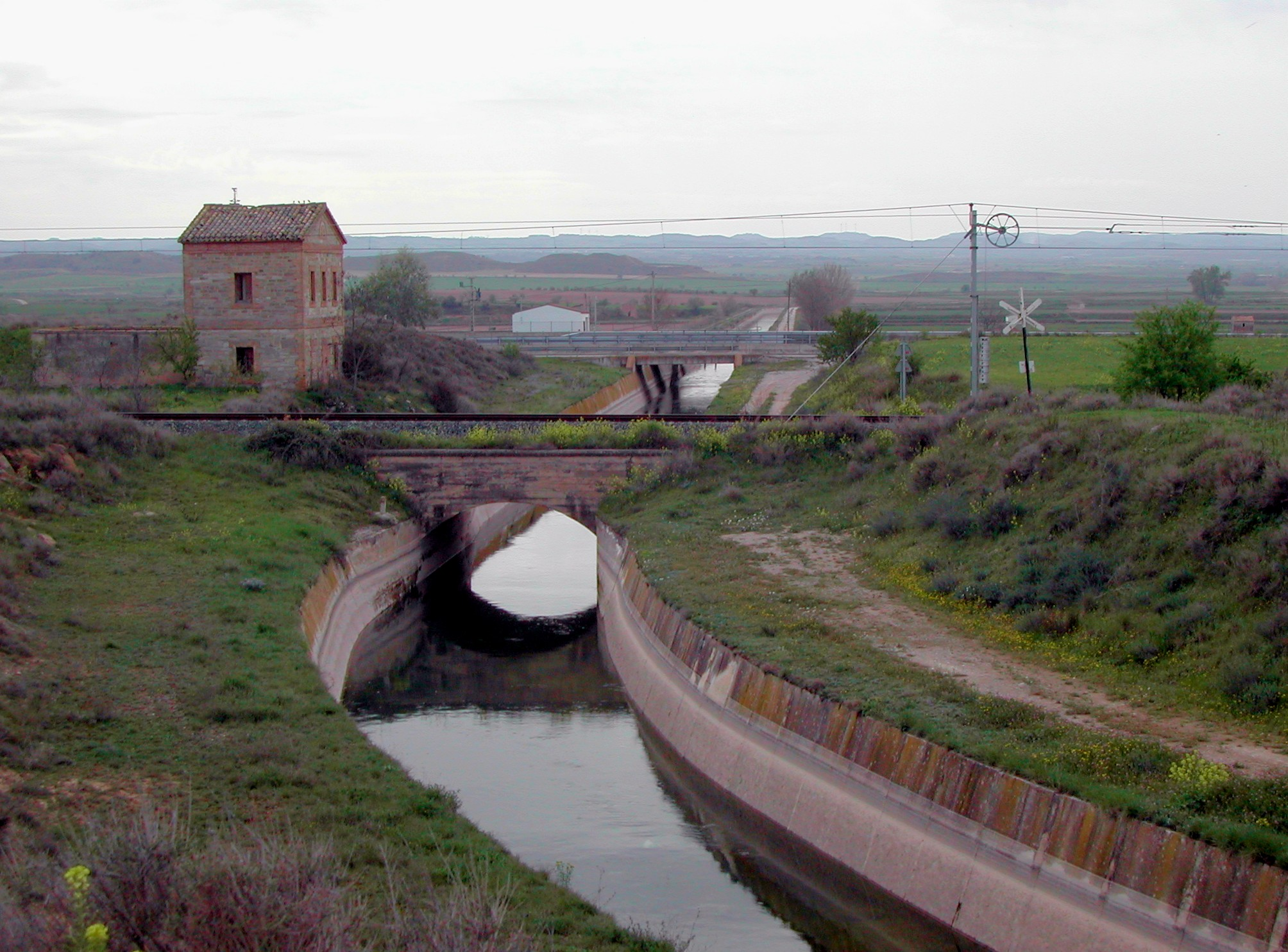 Manresa-Lleida railway bridge over Urgell chanel, Anglesola. At the back, a road bridge.